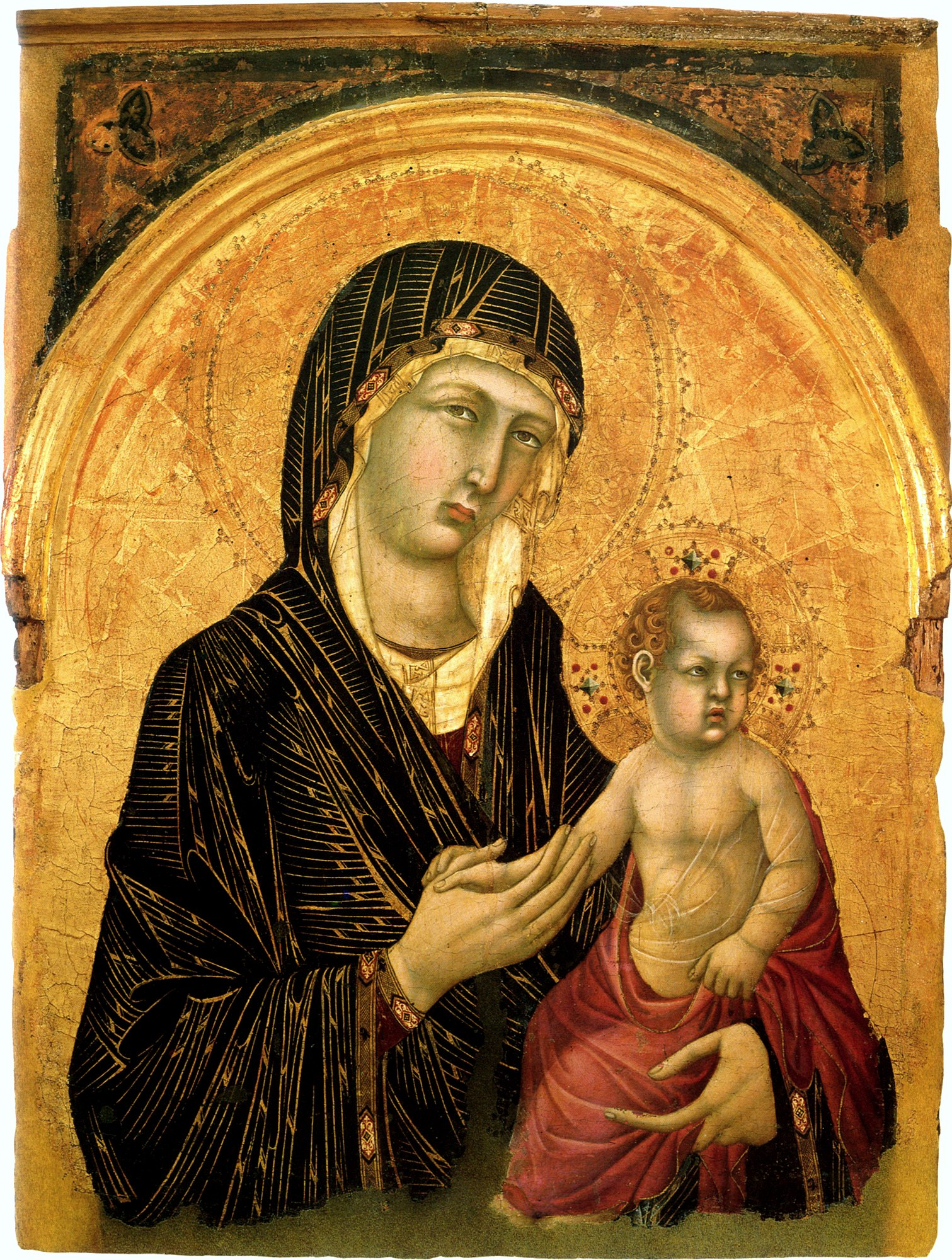 The-madonna-and-child-1881.jpg